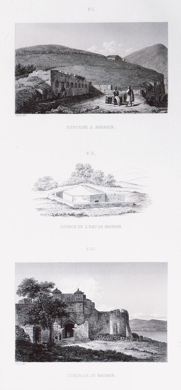 Guillaume-Abel Blouet. Expédition scientifique de Morée, Ordonnée par le Gouvernement français: Architecture, I-VI, Paris, Firmin Didot, 1831-1838.